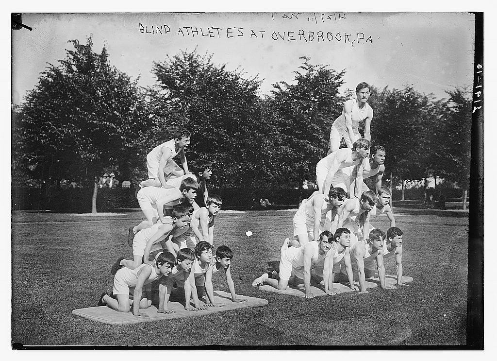 Blind athletes at Overbrook, Pa. (LOC) Bain News Service,, publisher. Blind athletes at Overbrook at the Overbrook School for the Blind on April 27, 1911 1911 April 27. 1 negative : glass ; 5 x 7 in. or smaller. Notes: Title and date from data provided by the Bain News Service on the negative. Forms part of: George Grantham Bain Collection (Library of Congress). Format: Glass negatives. Repository: Library of Congress, Prints and Photographs Division, Washington, D.C. 20540 USA, General information about the Bain Collection is available at Persistent URL: Call Number: LC-B2- 2191-10